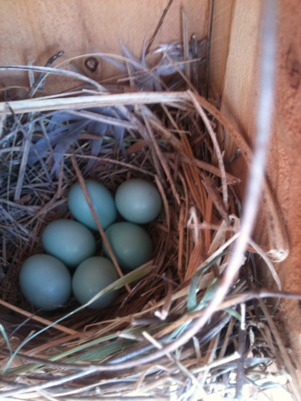 Western Bluebird (Sialia mexicana) eggs.